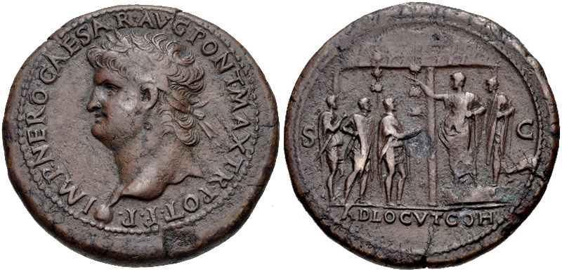 Nero. AD 54-68. Æ Sestertius (37mm, 28.79 g, 8h). Lugdunum (Lyon) mint. Struck circa AD 64-67. IMP · NERO · CAESAR · AVG · PONT · MAX · TR · POT · P · P ·, laureate head left; globe at point of neck; Nero standing left with praetorian prefect on low platform to right, addressing three soldiers to left, standing right, the first two holding signa; the praetorian camp in the background; ADLOCVT COH in exergue. RIC I 491; Lyon 183 (unlisted dies); WCN 444.